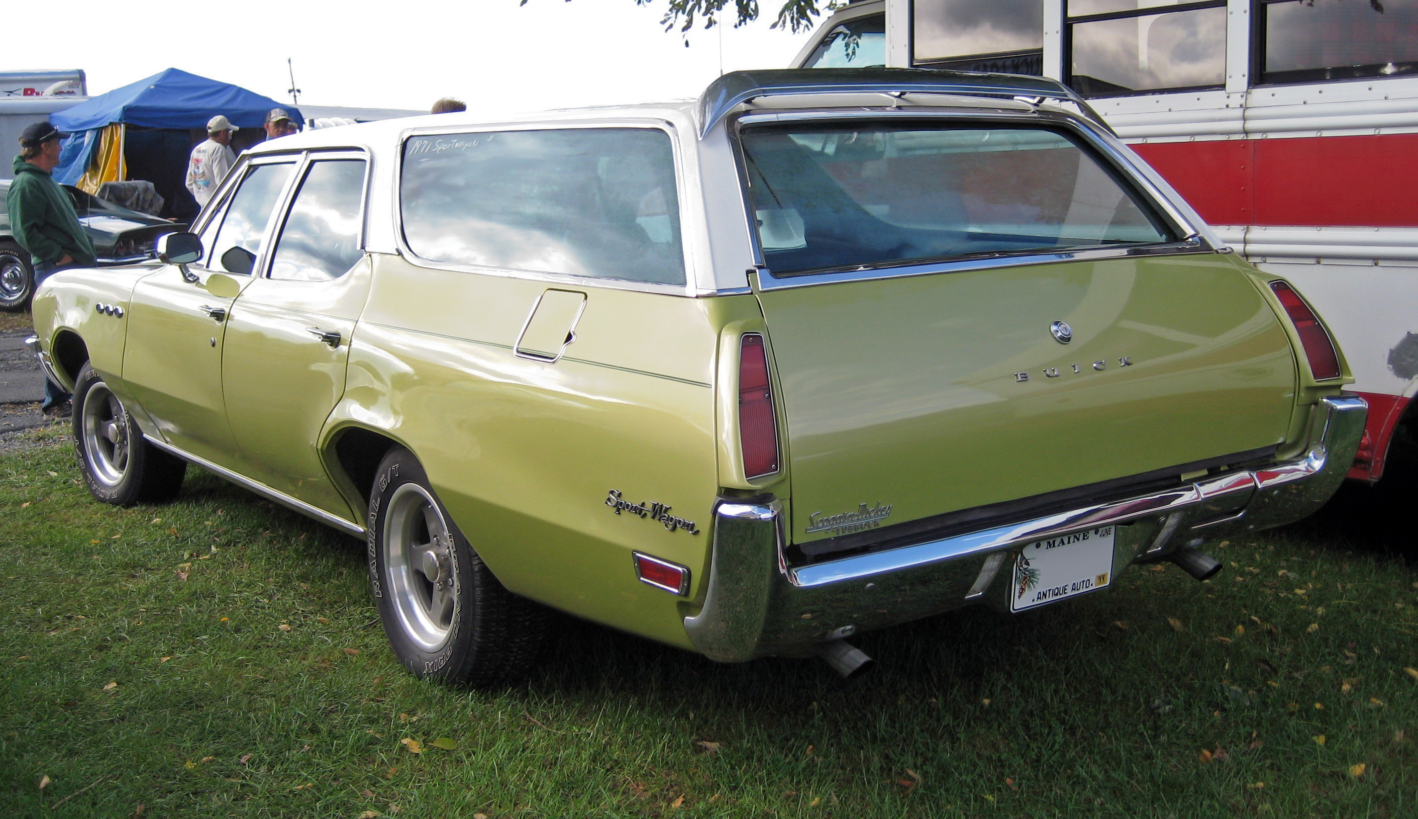 1971 Buick Sport Wagon at the Fall Carlisle meet, 2010. Sold new in Lubbock, western Texas, hence the lack of rust despite the Maine registration.